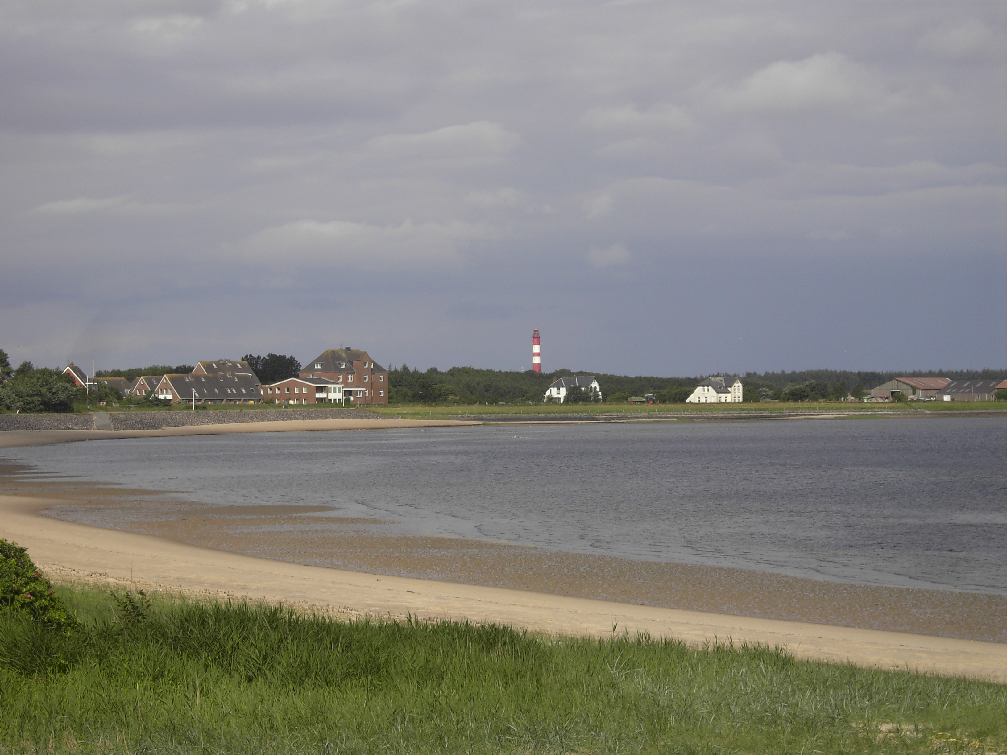 View from Wittdün to the Lighttower, Amrum, Germany